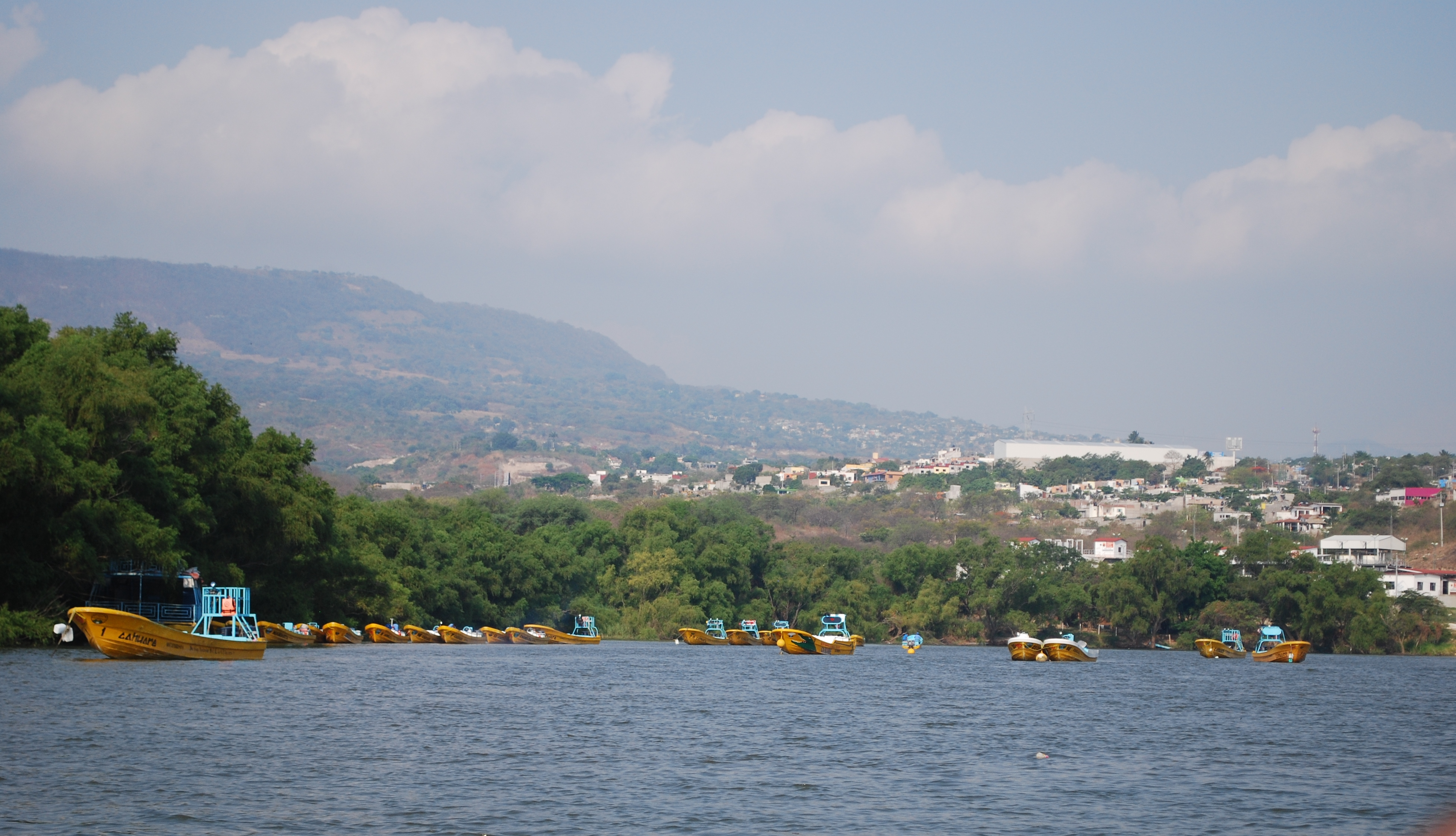 Grijalva River in Tuxtla Gutierrez, Chiapas, Mexico